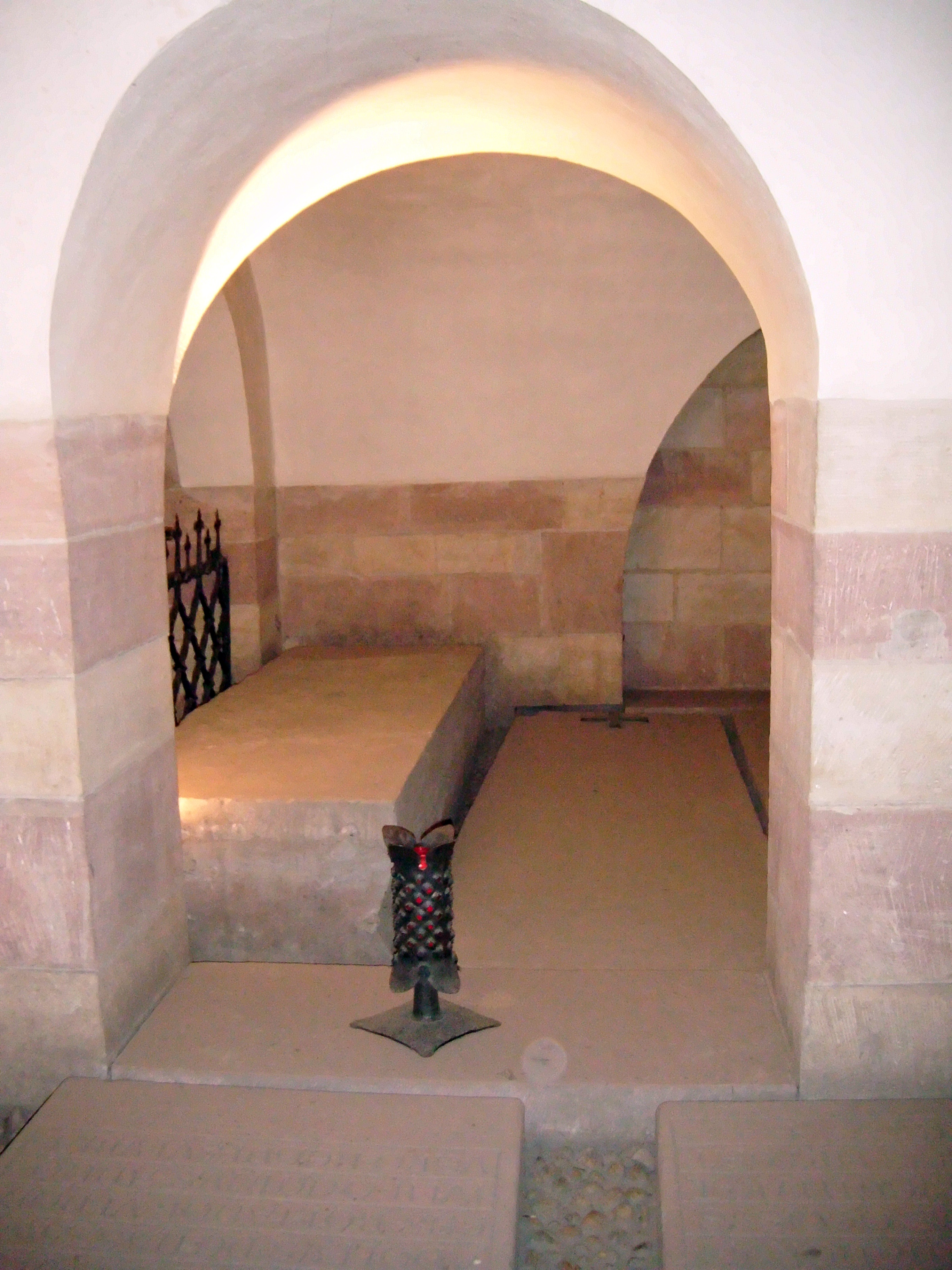 Speyer Dom Gräber Kaiser Heinrich III. (rechts) u. Heinrich IV. (links)